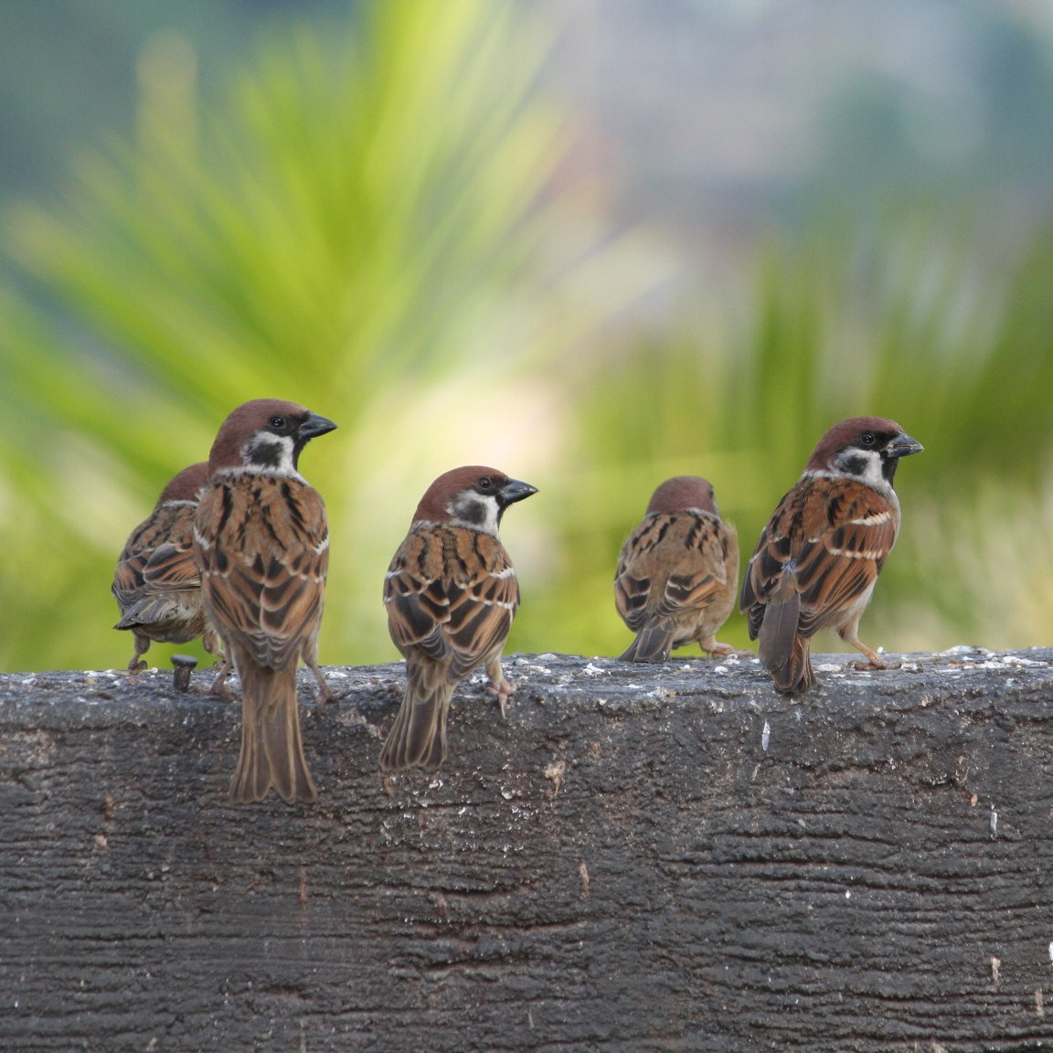 Passer montanus: December 10, 2008 (#320)